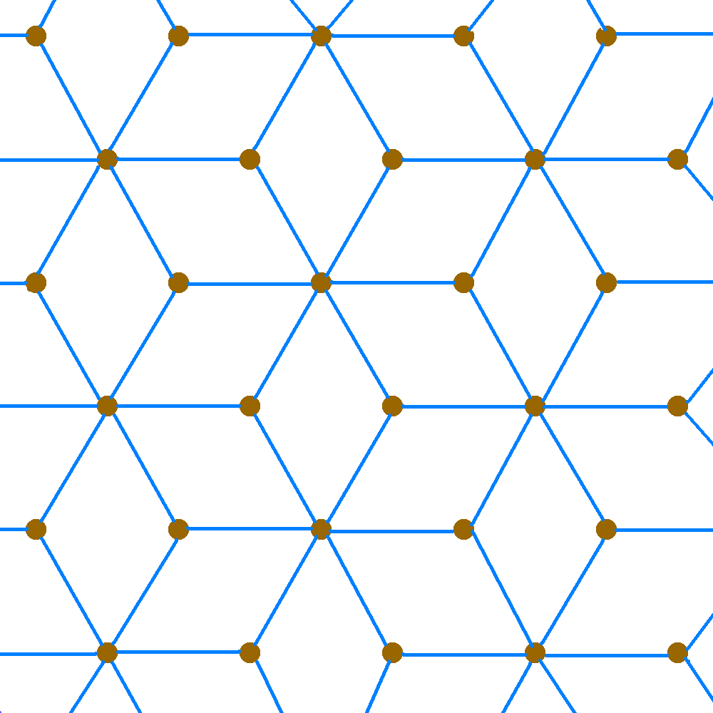 quasiregular rhombic tiling lattice